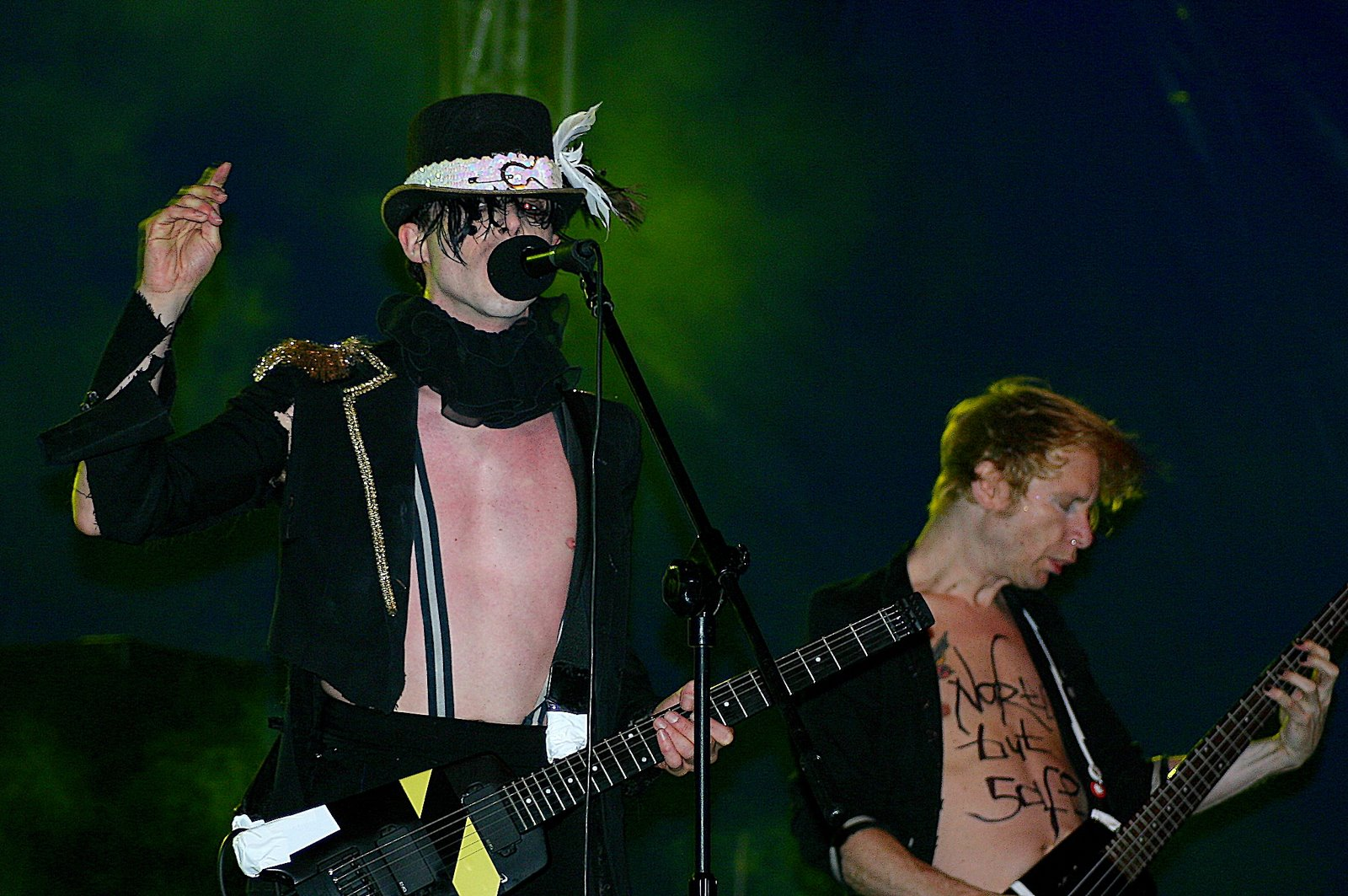 IAMX with guitar plater in the background at Castle Party 2007, Blolkow, Poland